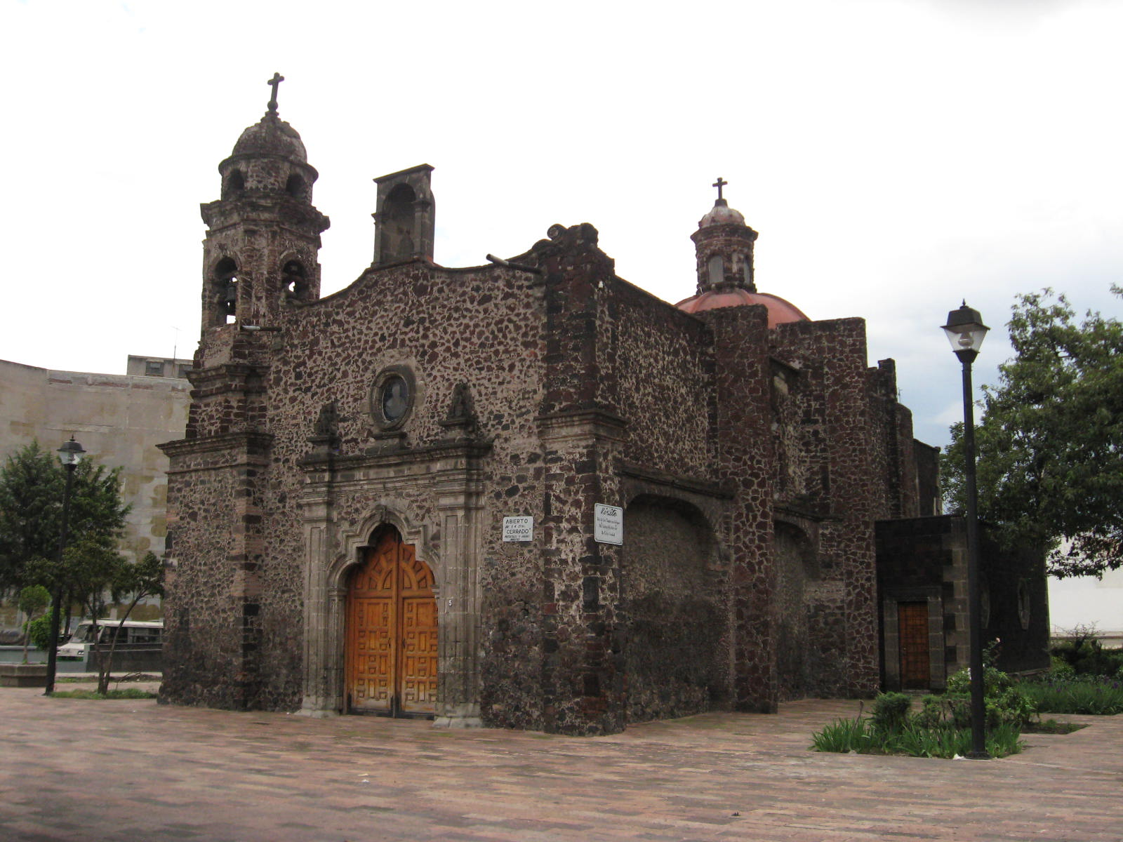 Chapel of the Santisima Conception de Tlaxcoaque (Most Holy Conception of Tlaxcoaque) located on Fray Servando de Mier street at the extreme southeast of the centro historico of Mexico City